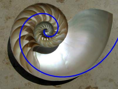 Nautilus shell cut in half with a golden spiral superimposed on it; photo taken by Chris 73, changed by Akkana Peck.